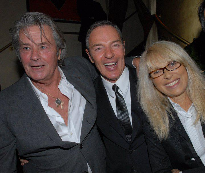 Alain Delon, Tony Gomez and Mireille Darc